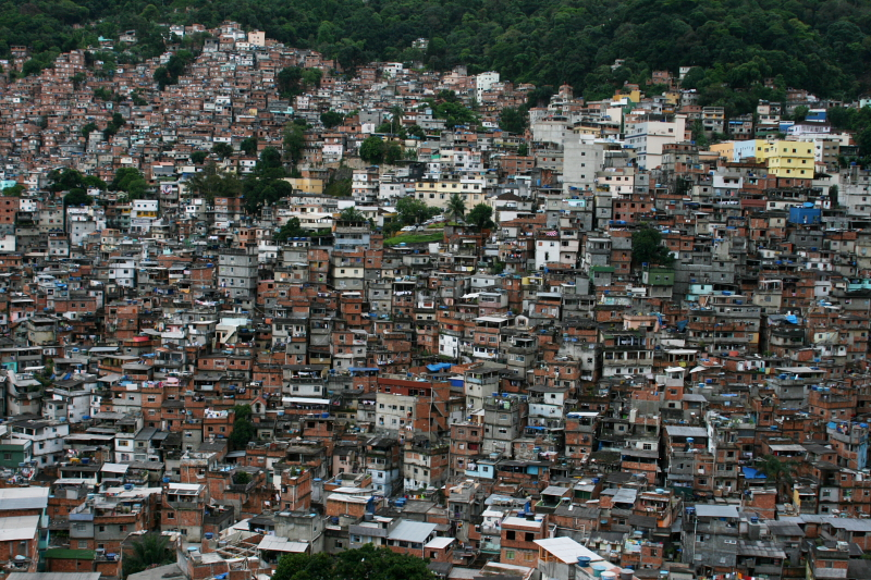 Rocinha slum in Rio de Janeiro, Brazil